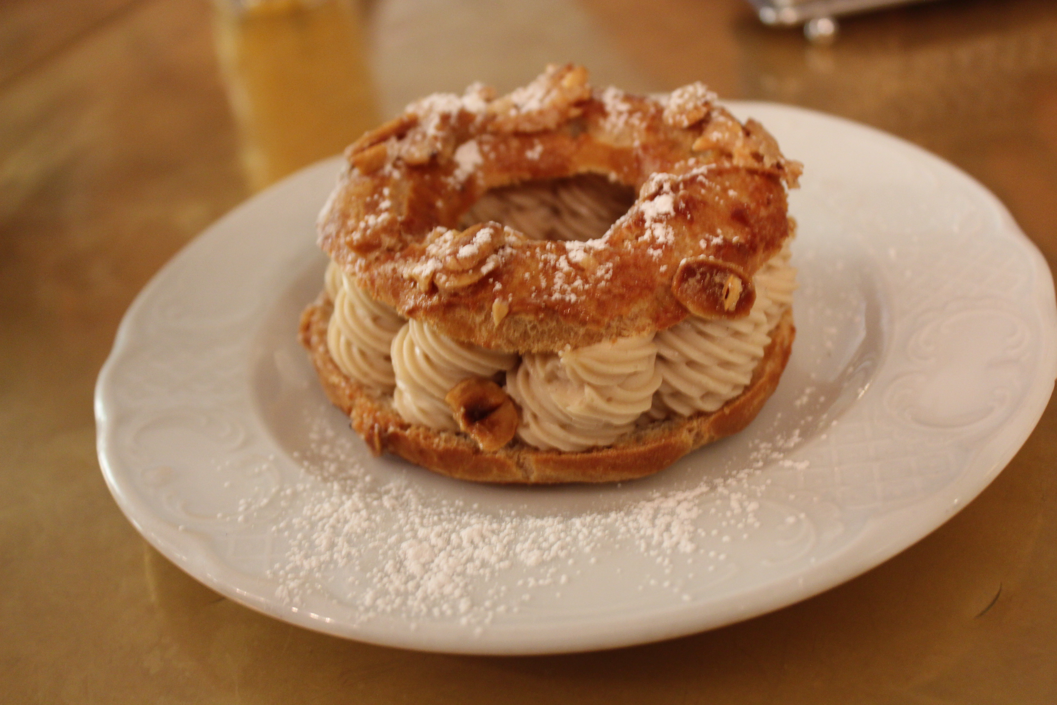 Paris Brest from Cafe Kadosh, Jerusalem